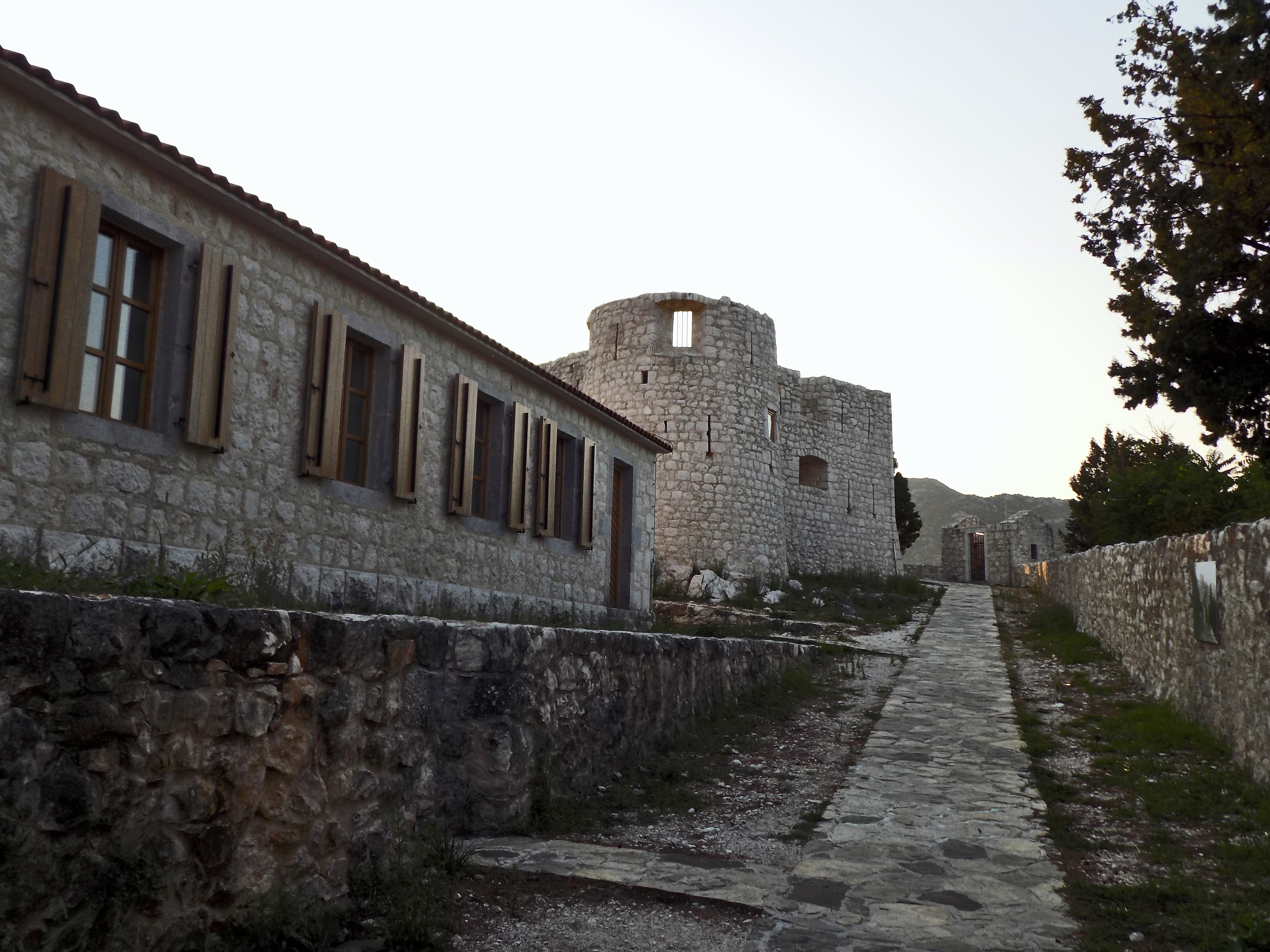 Fort Besac, Virpazar, Montenegro